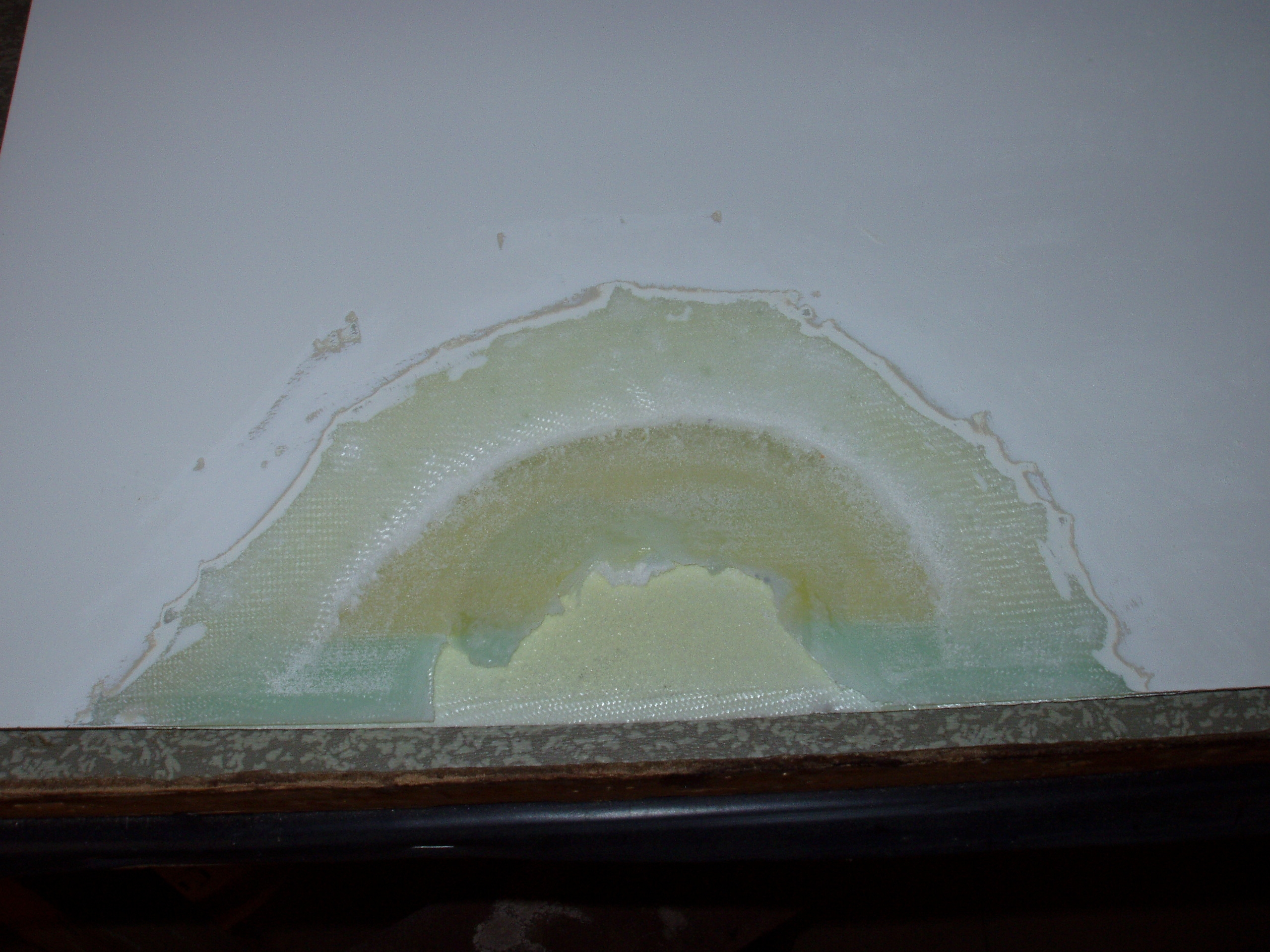 The aileron of a Schleicher ASK 21 during a mending of a small damage. You can see the single layers very good.